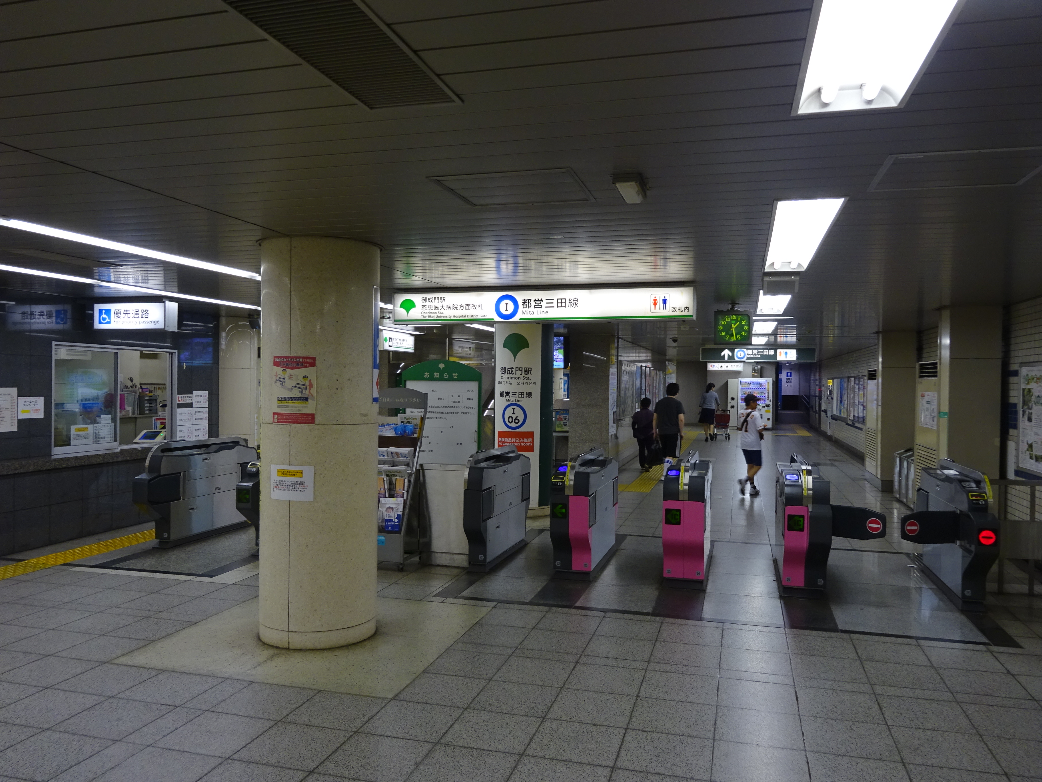 Ticket barriers of Onarimon Station(The Jikei University Hospital District Gate)